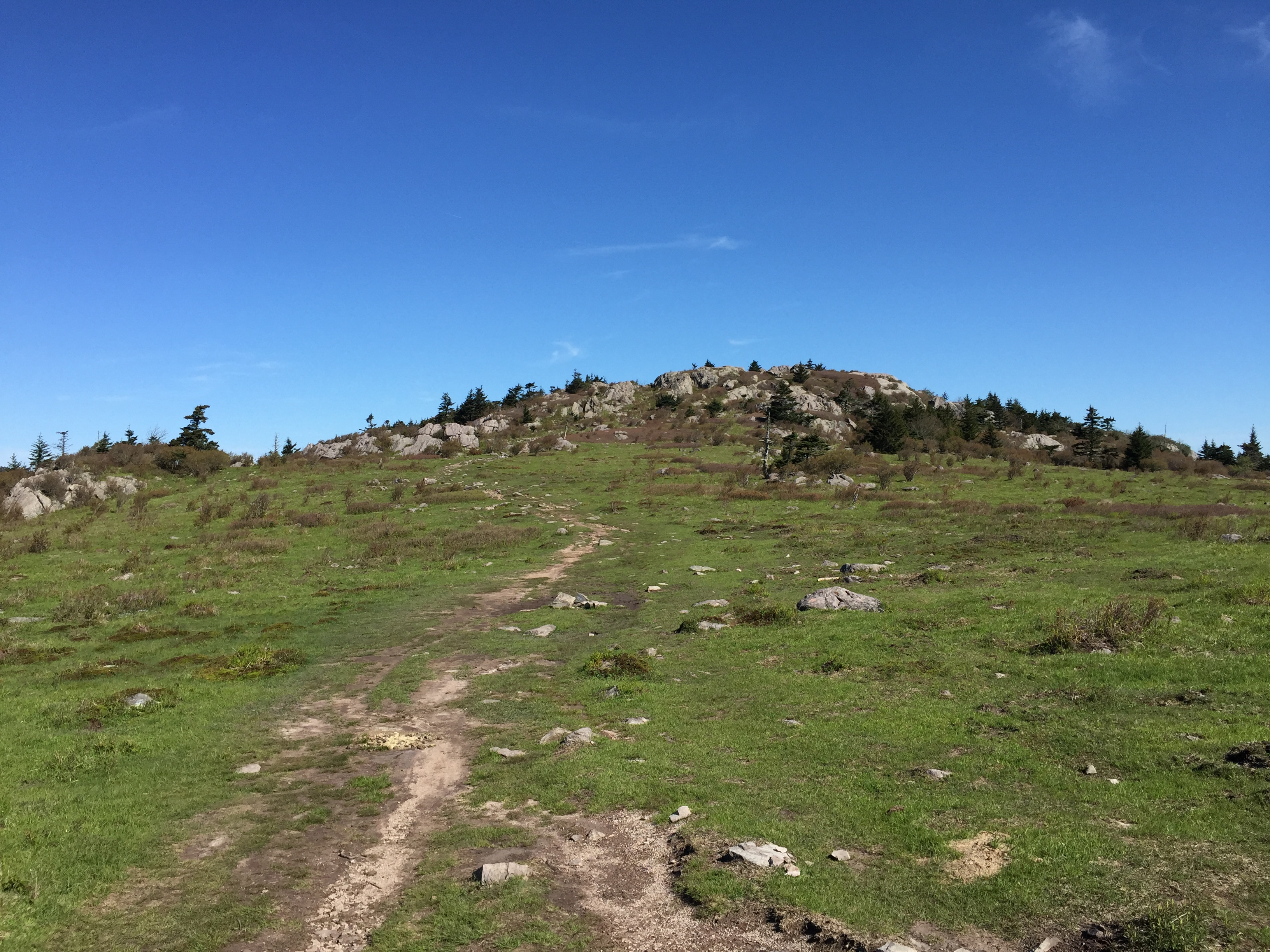 View south along the Appalachian Trail near the north end of the Wilburn Ridge Trail, looking towards Pine Mountain at the north end of Wilburn Ridge within the Mount Rogers National Recreation Area in Grayson County, Virginia